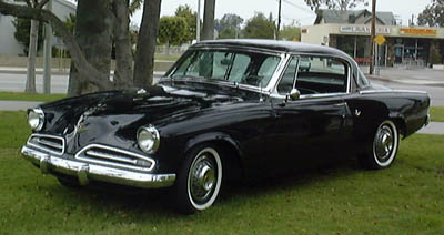 1953 Studebaker Commander, May 25, 2003 at the Studebaker show in Anaheim, CA